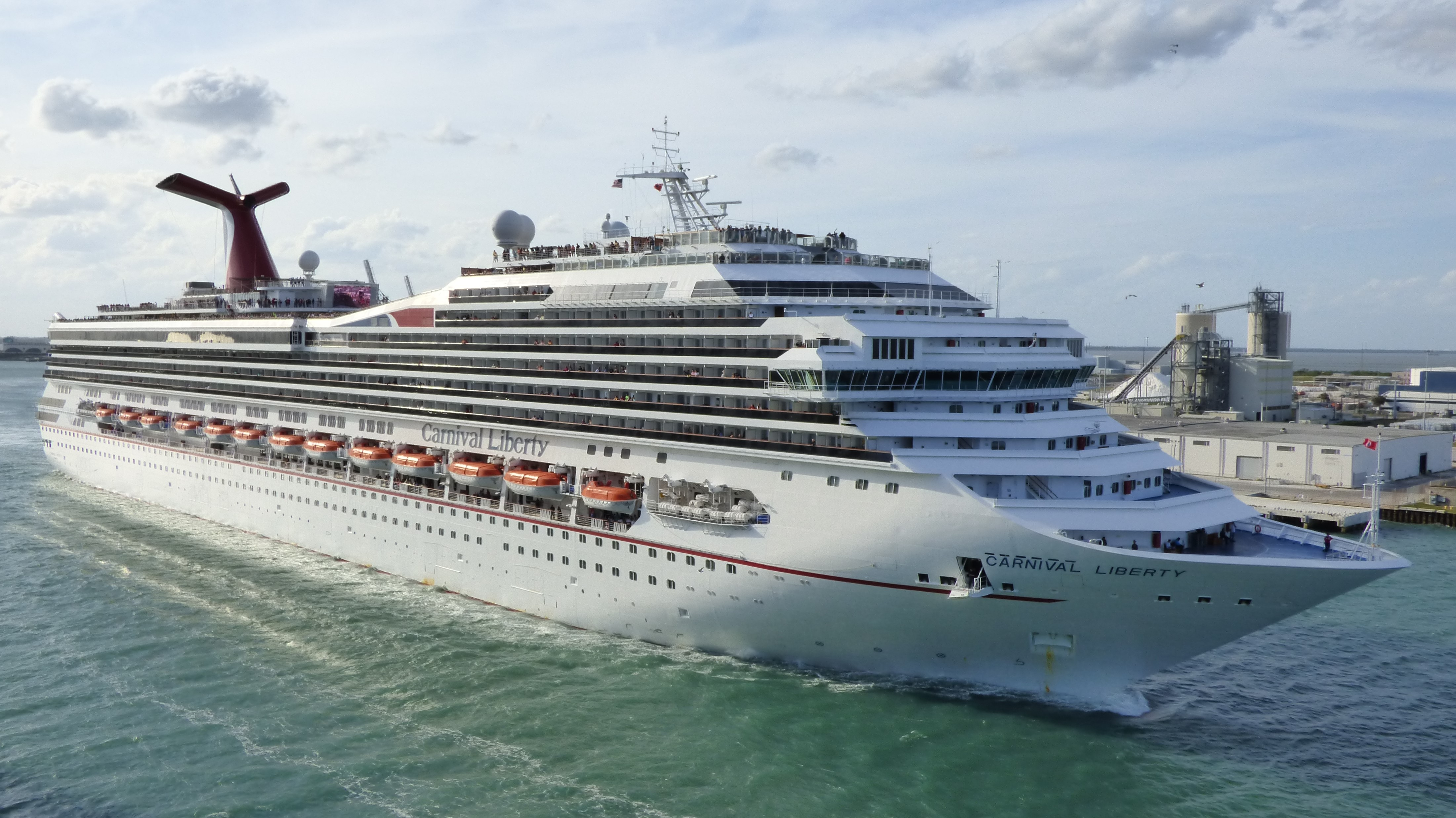 Carnival Liberty leaving Port Canaveral